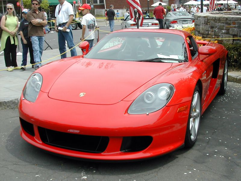 Porsche Carrera GT From the Scarsdale Concours